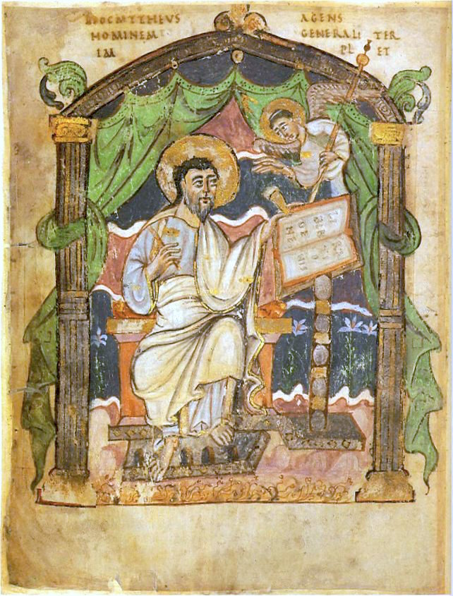 A miniature of St. Matthew in the Coronation Gospels presented by King Athelstan to Christ Church Priory. The manuscript is Carolingian in origin. British Library MS Cotton Tiberius A ii. See also Image:Coronation_Gospels_Athelstan_inscription.jpg which has an image of the inscription on the verso of this page.